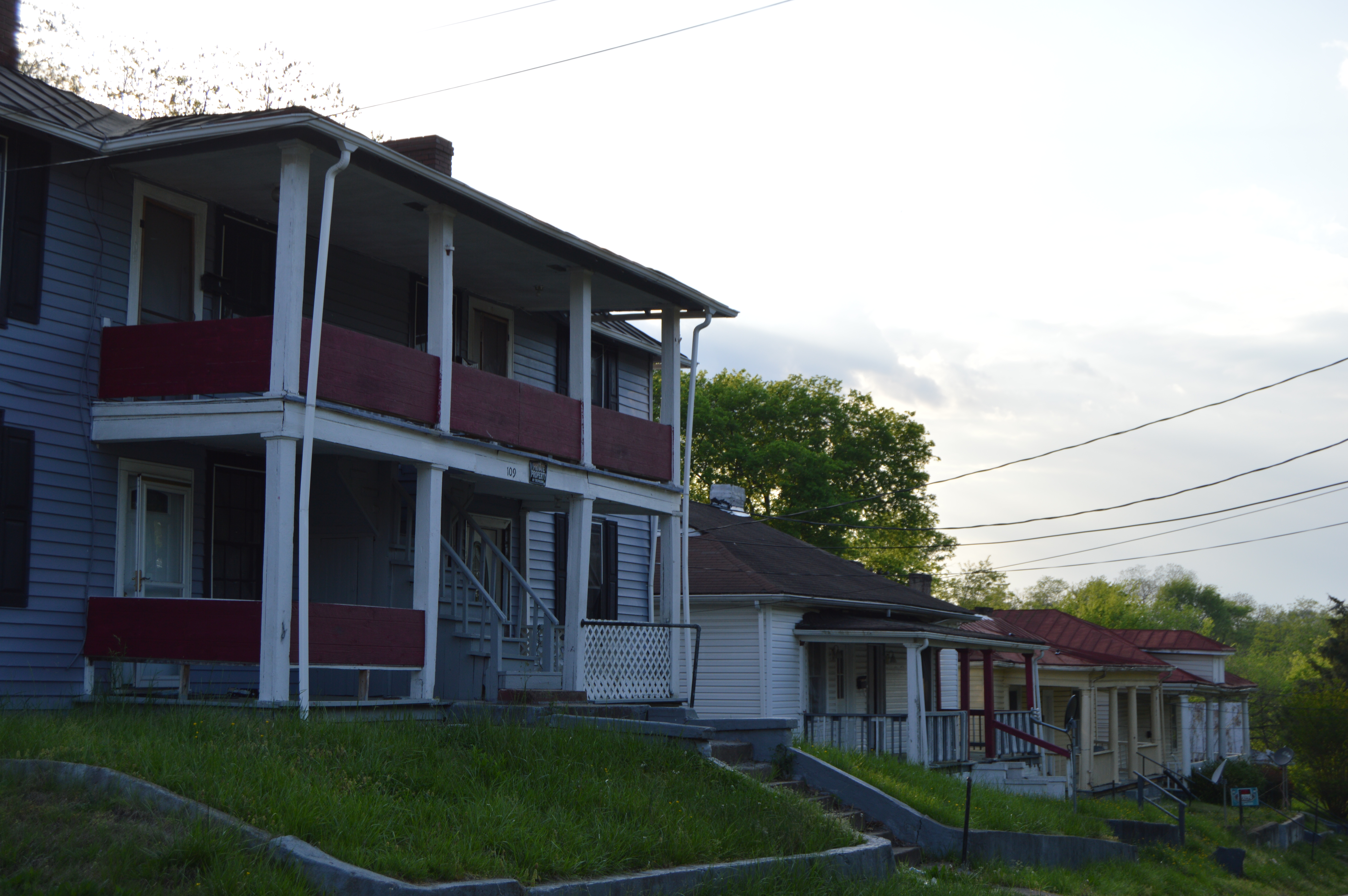 Houses on the southwestern side of Walker Street just northwest of the Main Street intersection in Danville, Virginia, United States. This block is part of the North Danville Historic District, a historic district that is listed on the National Register of Historic Places.